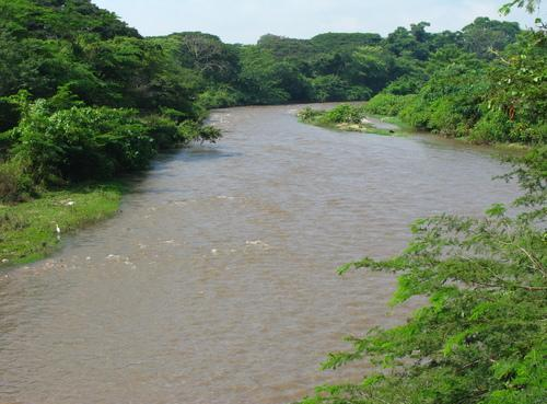 Rancheria